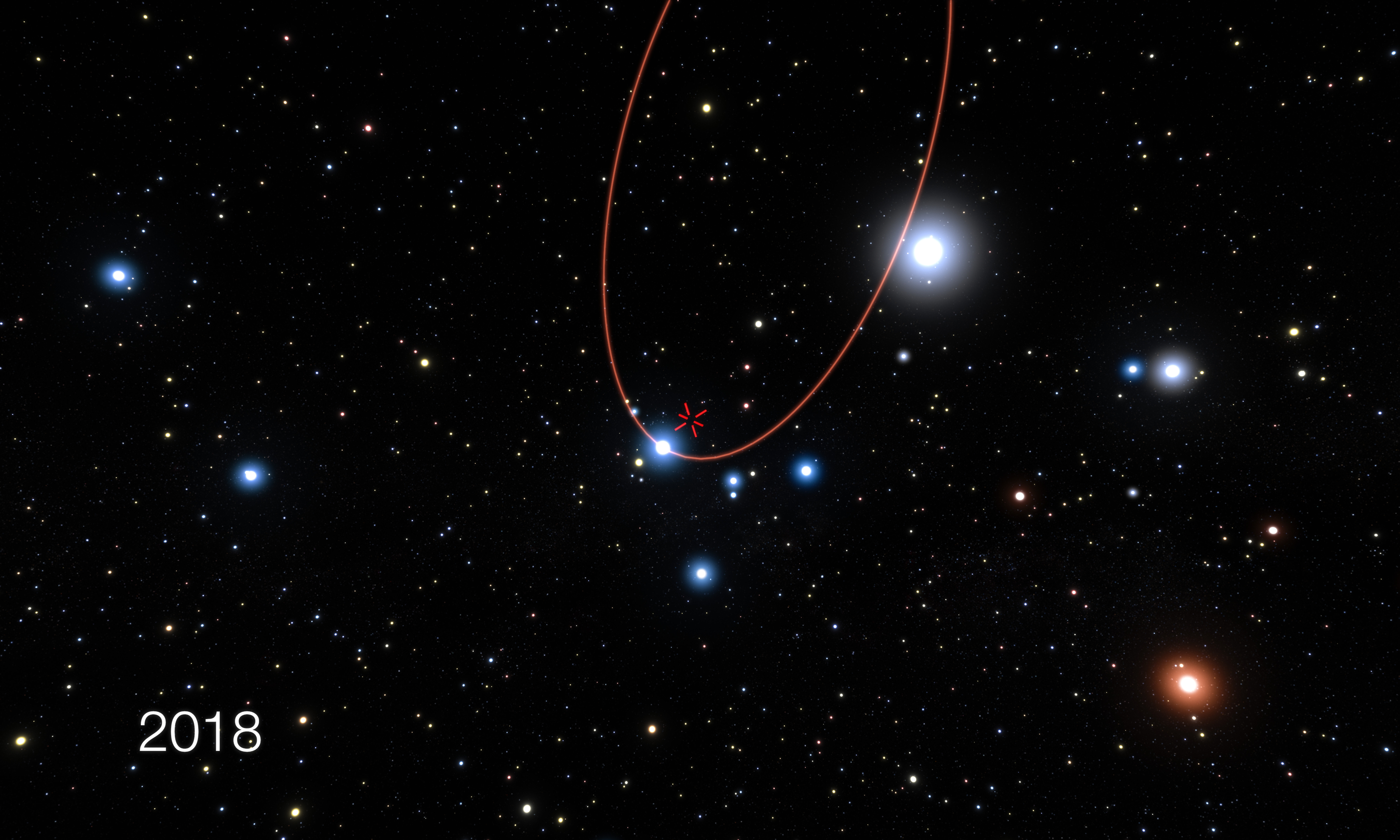 This artist’s impression shows stars orbiting the supermassive black hole at the centre of the Milky Way. In 2018 one of these stars, S2, will pass very close to the black hole and this event will be the best opportunity to study the effects of very strong gravity and test the predictions of Einstein’s general relativity in the near future. The GRAVITY instrument on the ESO Very Large Telescope Interferometer is the most powerful tool for measuring the positions of these stars in existence and it was successfully tested on the S2 star in the summer of 2016. The orbit of S2 is shown in red and the position of the central black hole is marked with a red cross.